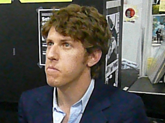 Greg Kurstin at Amoeba Music in Los Angeles, California, United States